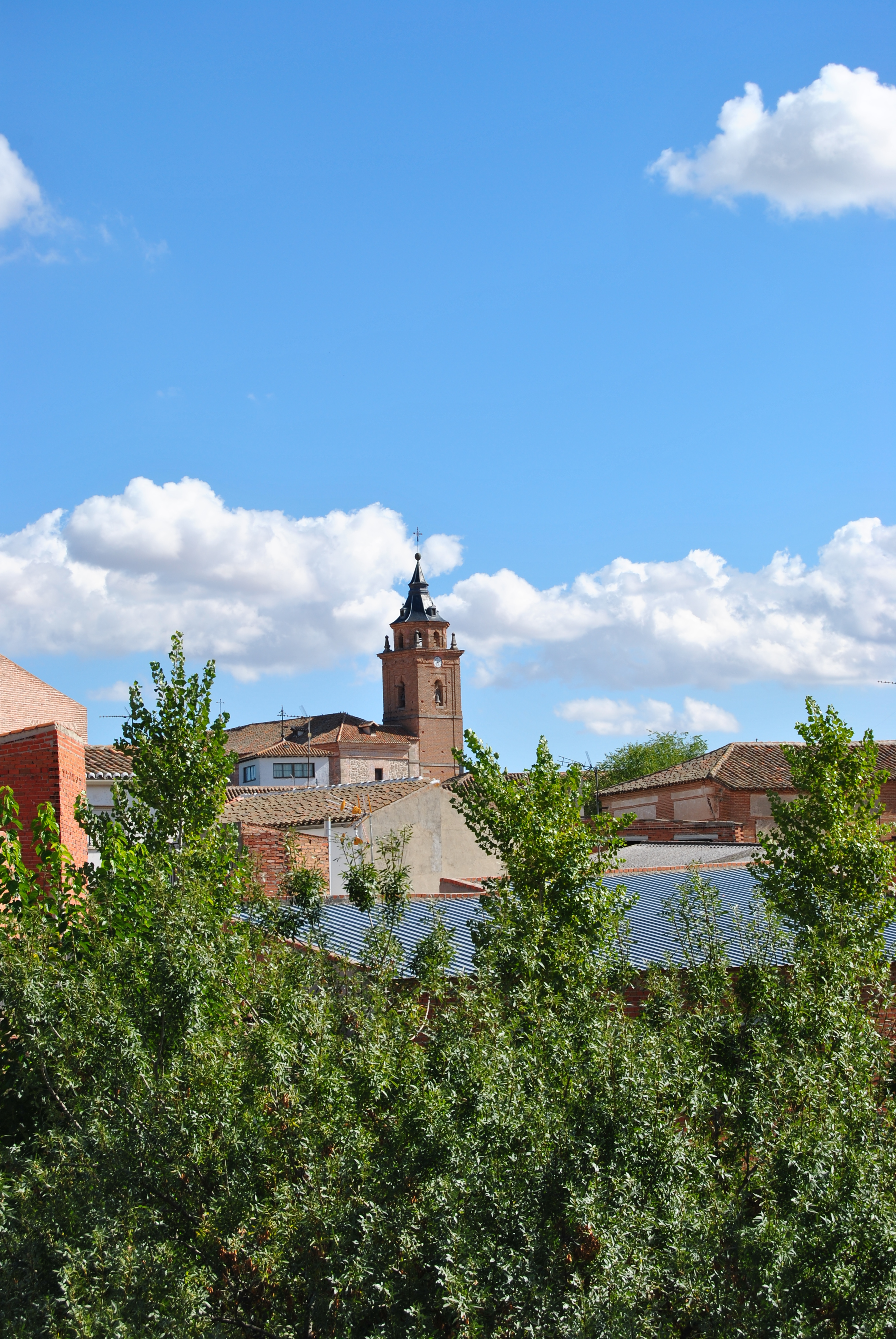 Iglesia parroquial de San Martín Obispo